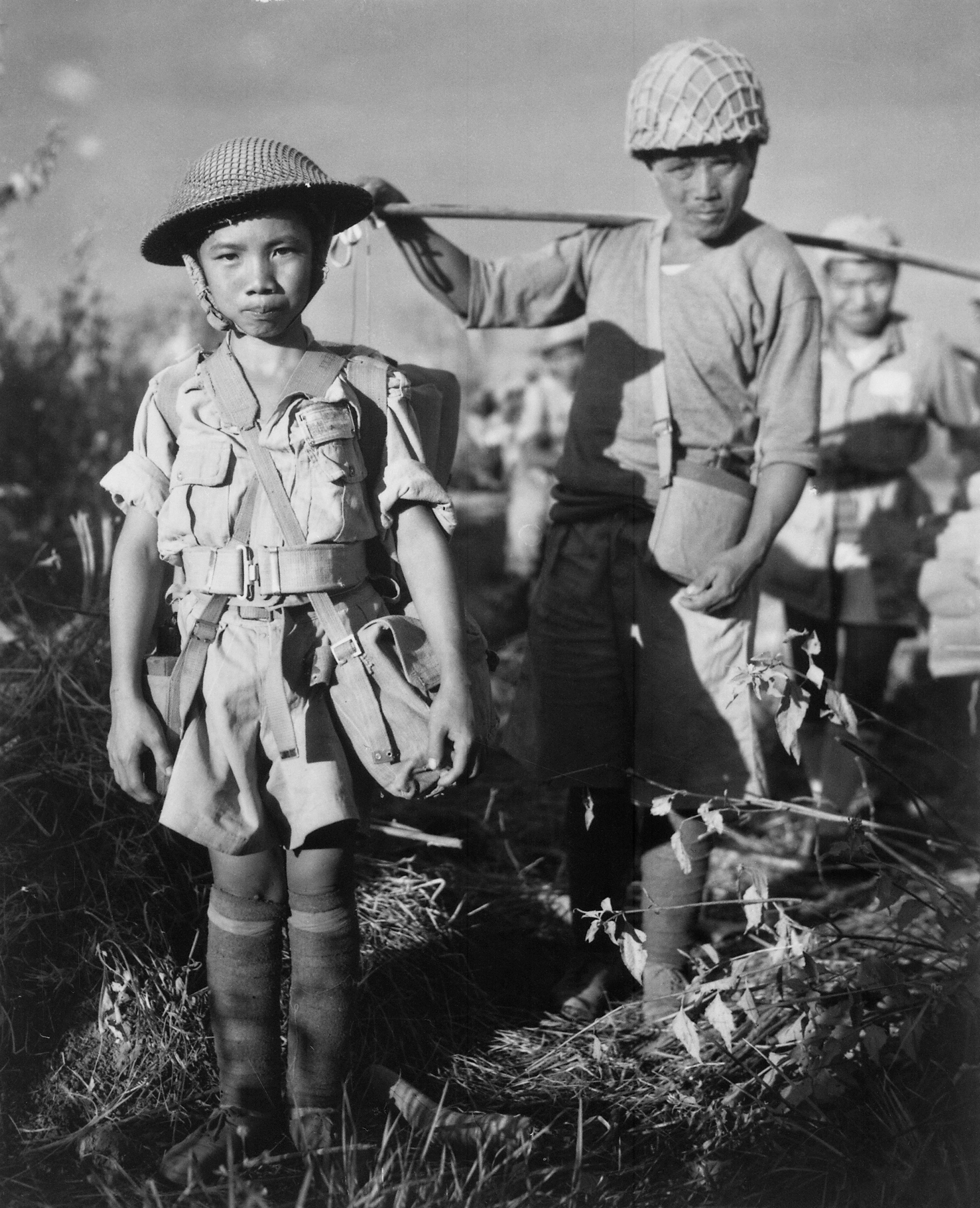 This Chinese soldier, age 10, with heavy pack, is a member of an army division boarding a plane returning them to China, following the capture of Myitkyina airfield, Burma, under the allied command of US Major General Frank Merrill, May 1944. Chinese and allied troops had earlier crossed through the treacherous jungle of the Kumon Bum Mountains before attacking Japanese troops to the south. Exhaustion and disease led to the early evacuation of many Chinese and allied troops before the coming assault on Myitkyina town.